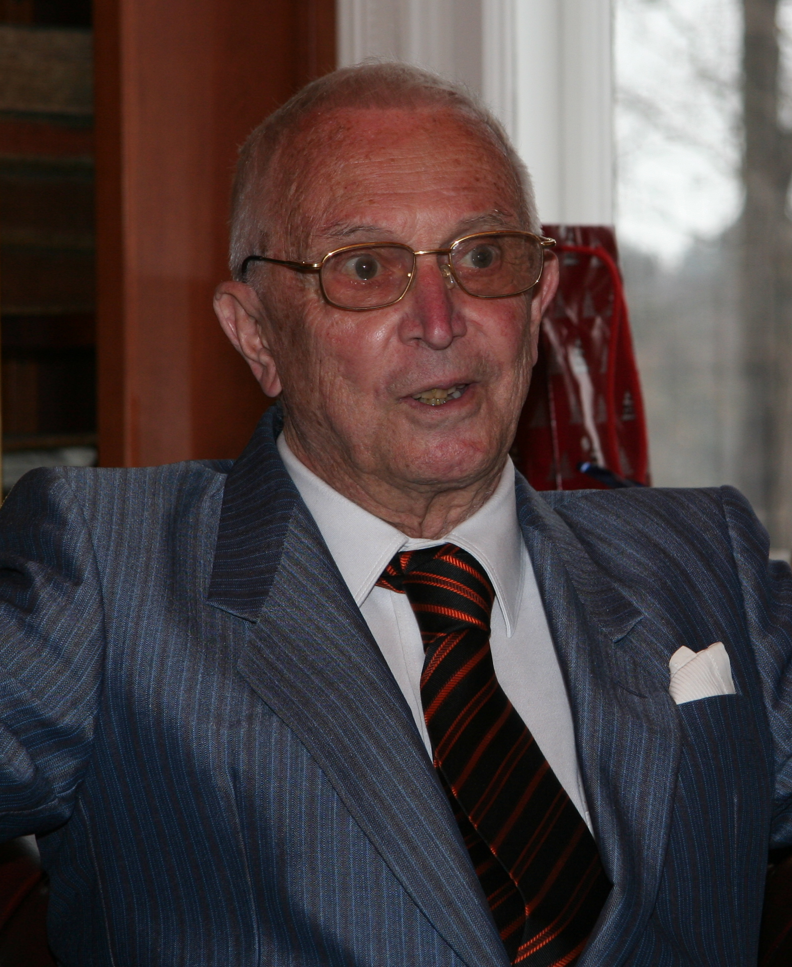 Helge Gyllenberg